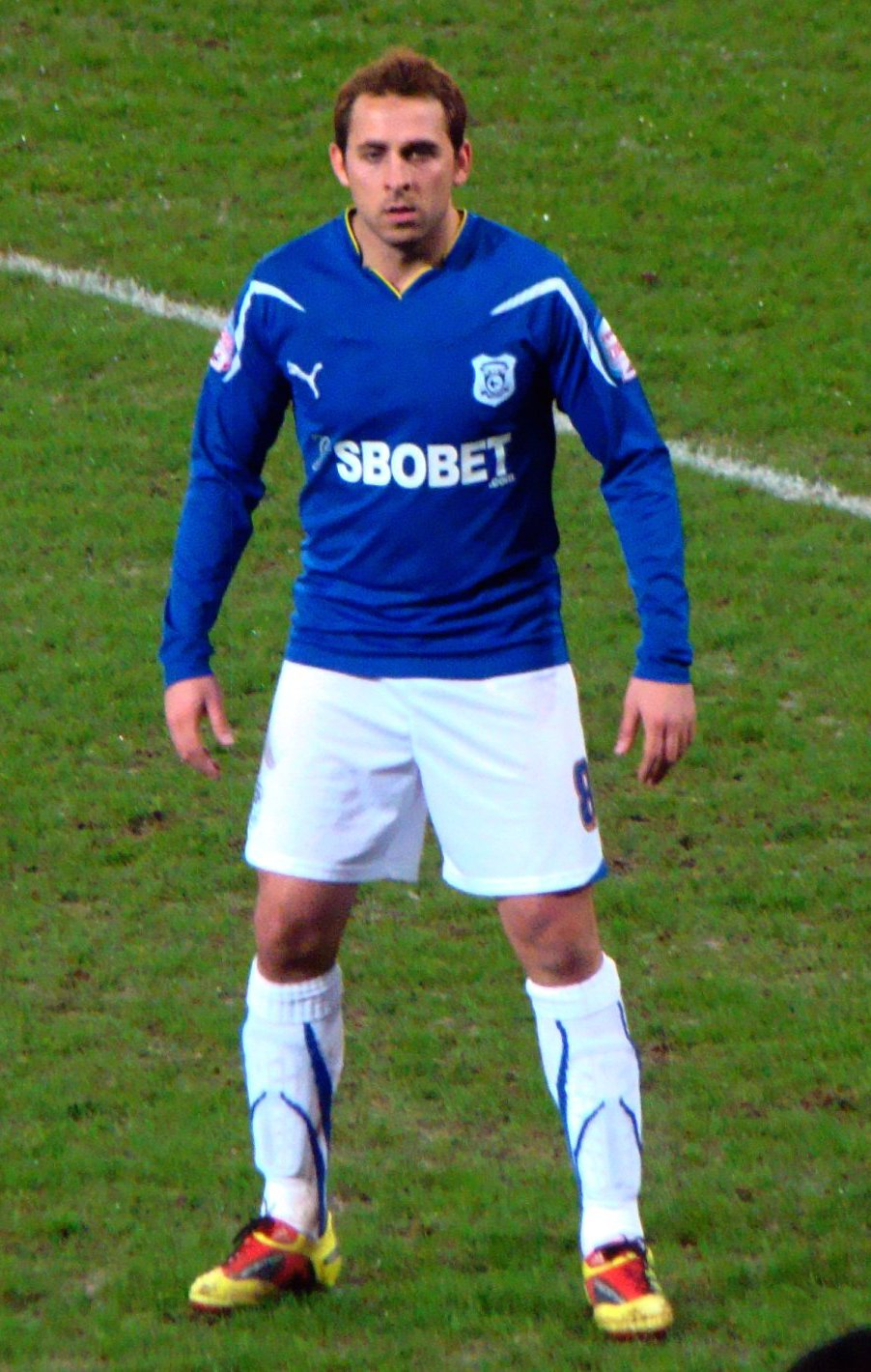 22/02/11 Cardiff V Leicester, Championship, Cardiff City Stadium, Cardiff, Wales